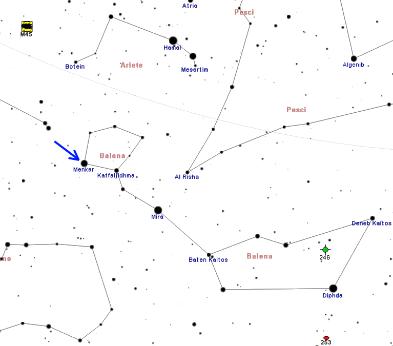 map of Menkar